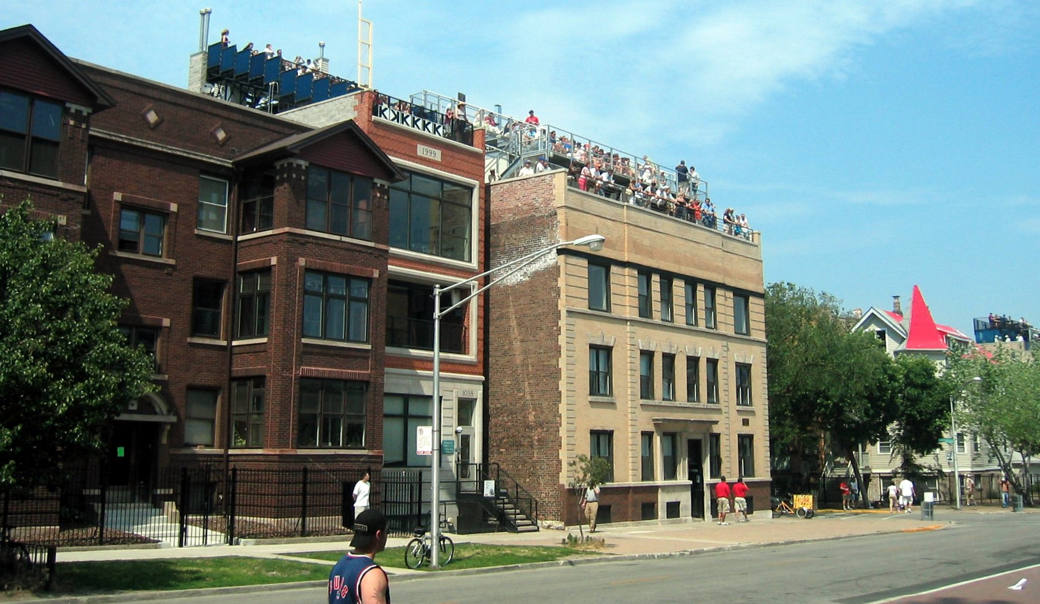 Wrigley Field